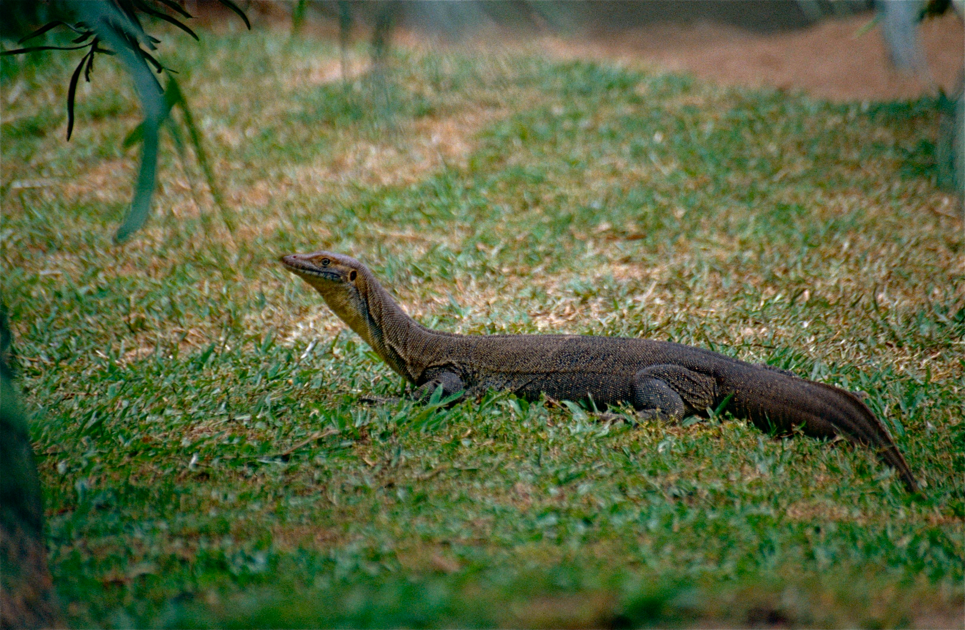 Australia Zoo, Beerwah, South Queensland, AUSTRALIA Scanned Slide from Dec 2000